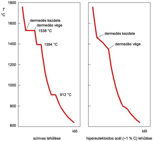 Cooling of iron and steel